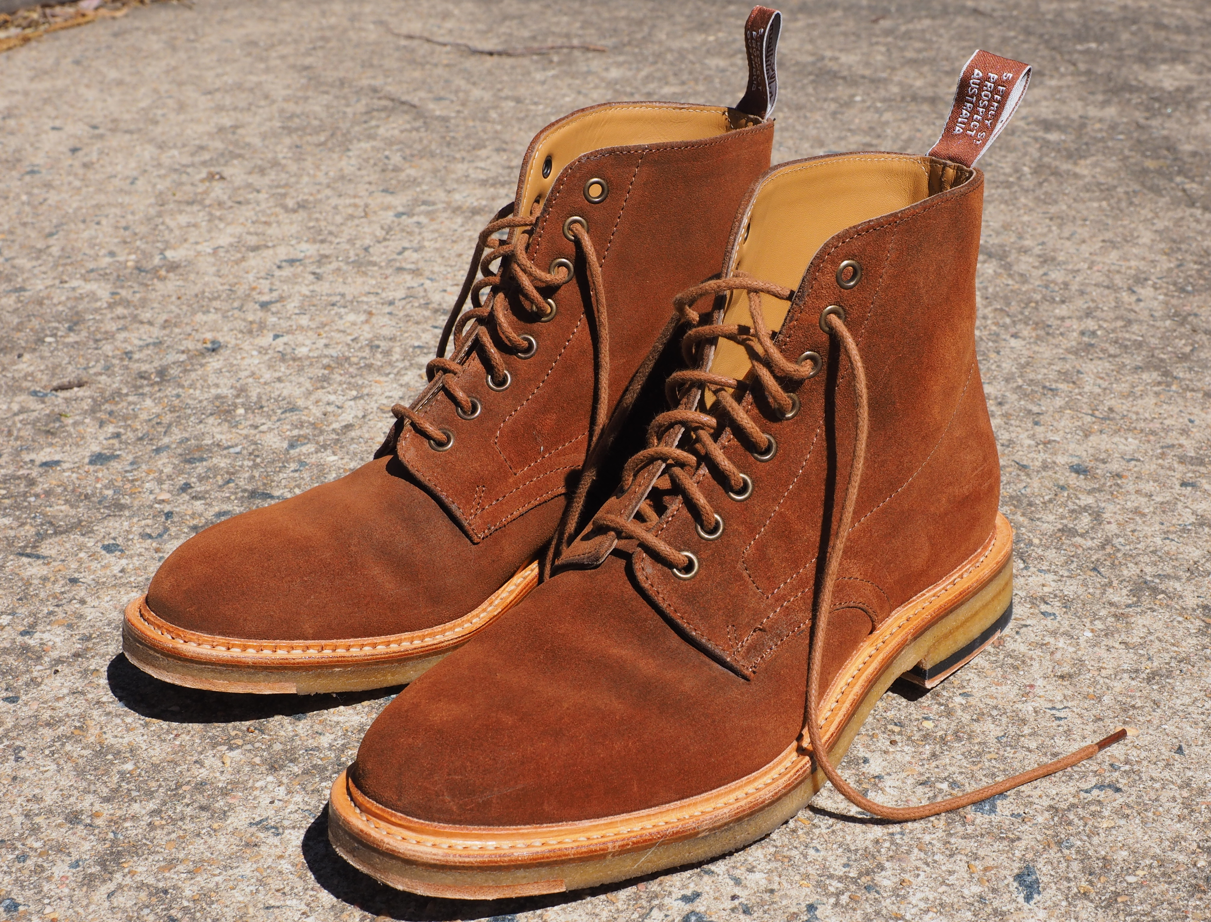 A pair of R.M. Williams "Gibson" lace-up boots